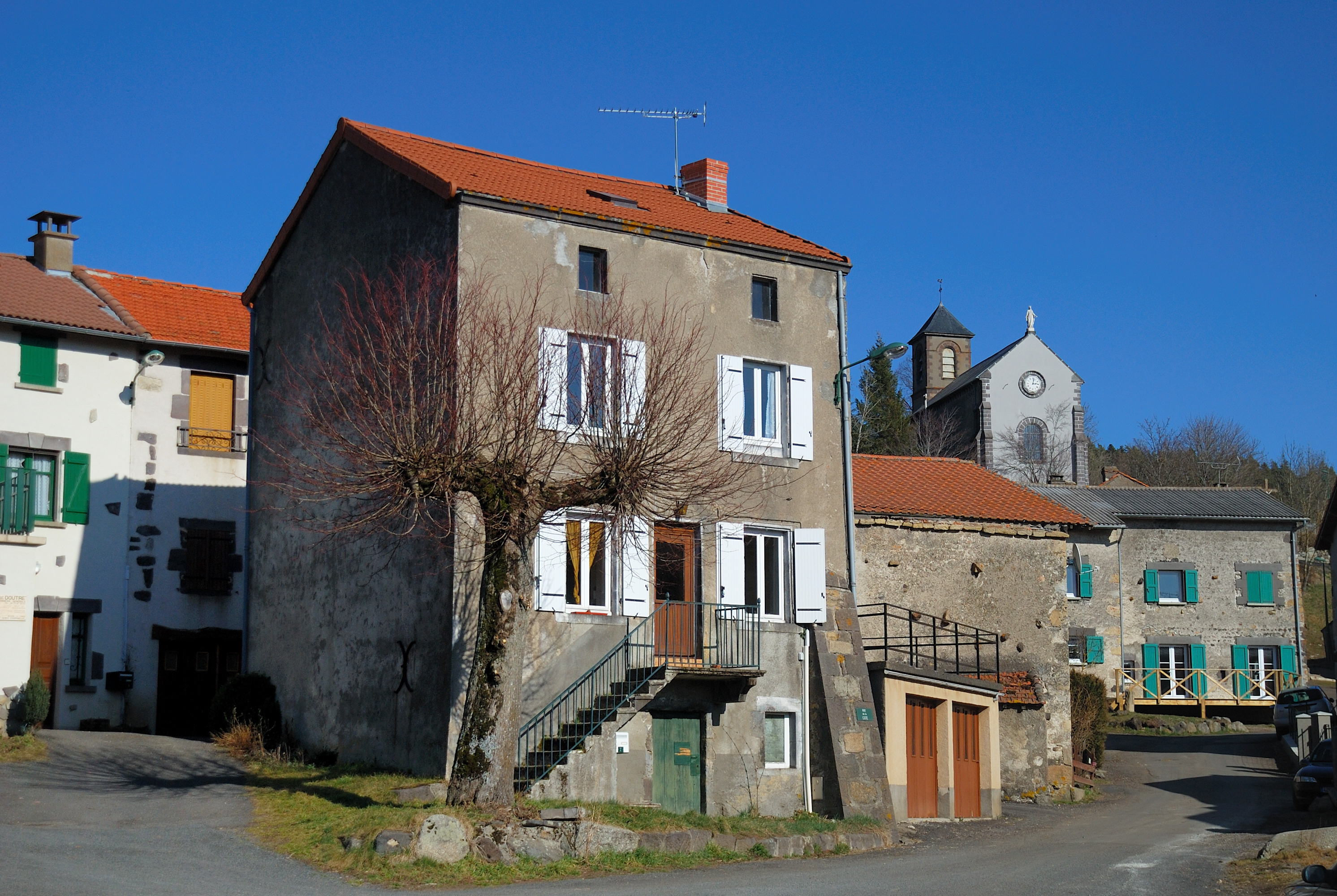 Saint-Genès-Champanelle (Puy-de-Dôme, France) : Beaune-le-Chaud hamlet.